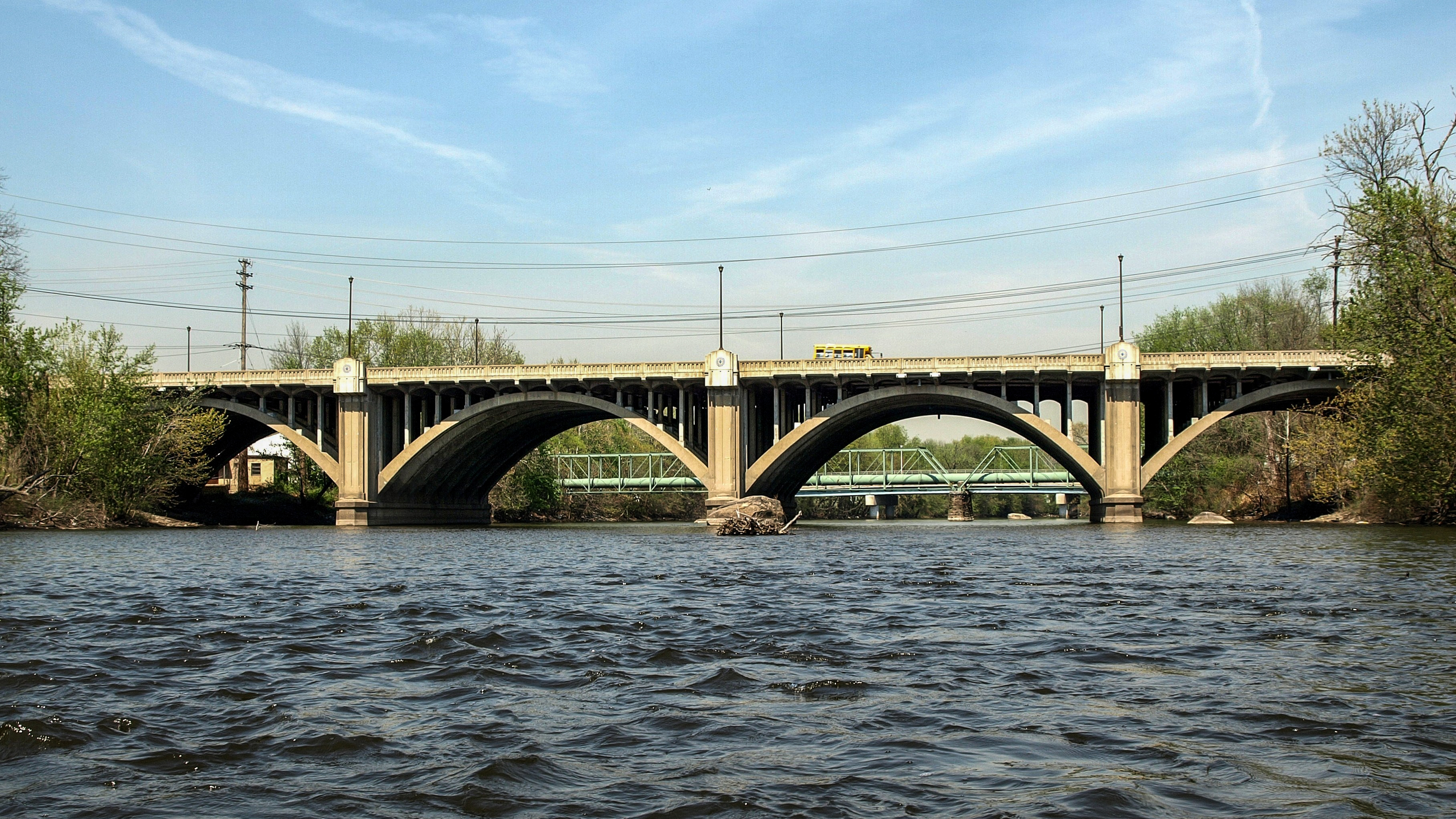 Passaic River Bridge (US Route 46) over the Passaic River, Totowa - Little Falls, New Jersey